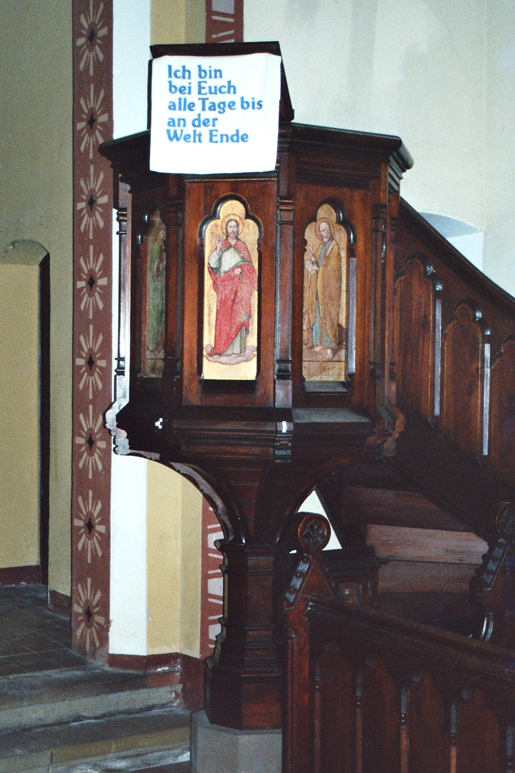 Amesdorf (Güsten), the pulpit of the village church This is a photograph of an architectural monument. 10149